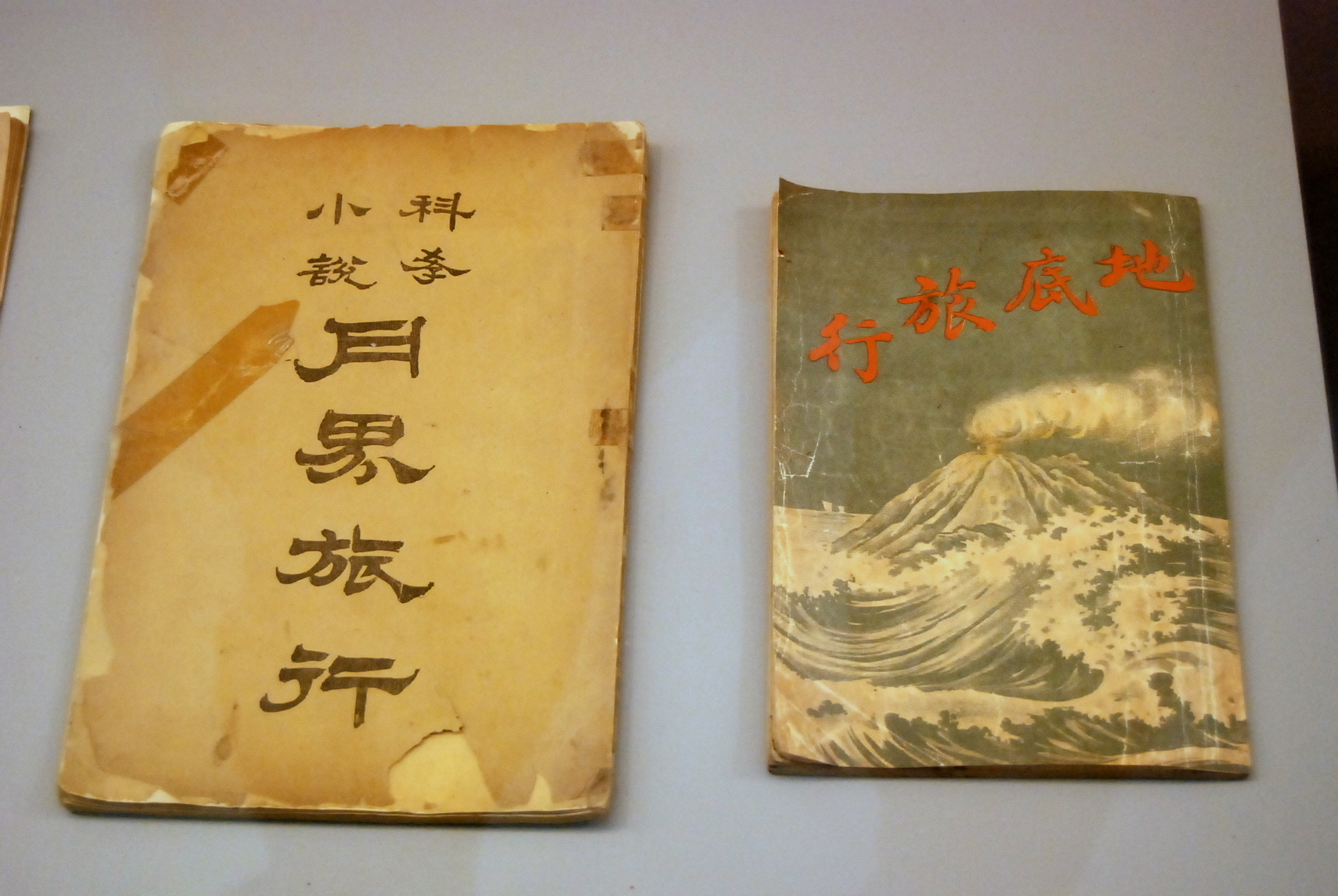 Left:Verne's "From the Earth to the Moon". Right:"Journey to the center of the Earth". Both were translated by Lu Xun.